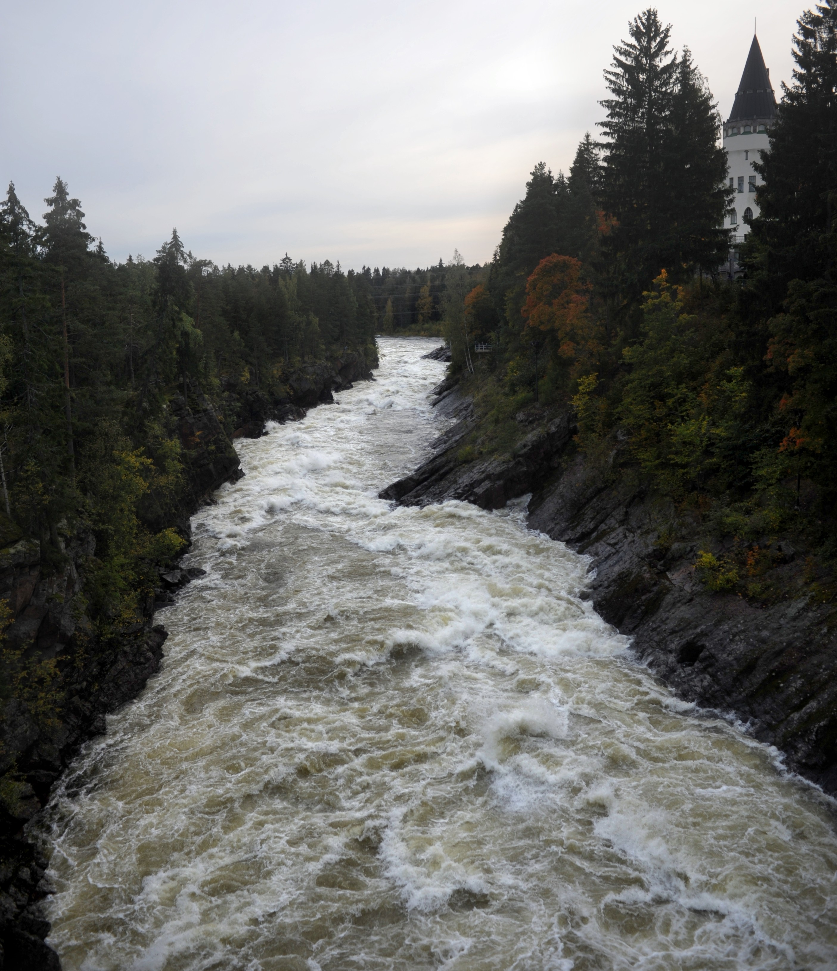 Imatrankoski September 20th 2012